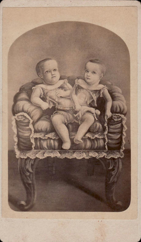 Carte de visite (CDV) of Canadian conjoined Twins Rose and Marie Drouin ("St. Benoit Twins") "The St. Benoit Twins Rose-Marie, She has two heads, four arms and two feet, Which in one perfect body meet at Geo. B. Bunnel's Annex to P. T. Barnum's With many other Wonders. Chas. Eisenman, Photo. 200 Grand St. N. Y."